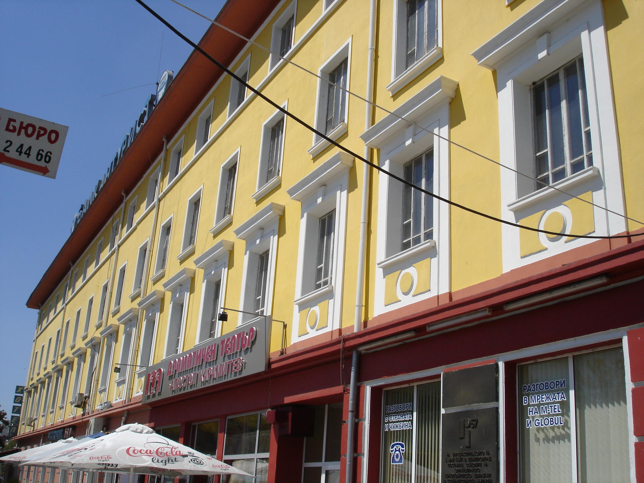 Theatre in Dimitrovgrad, Bulgaria